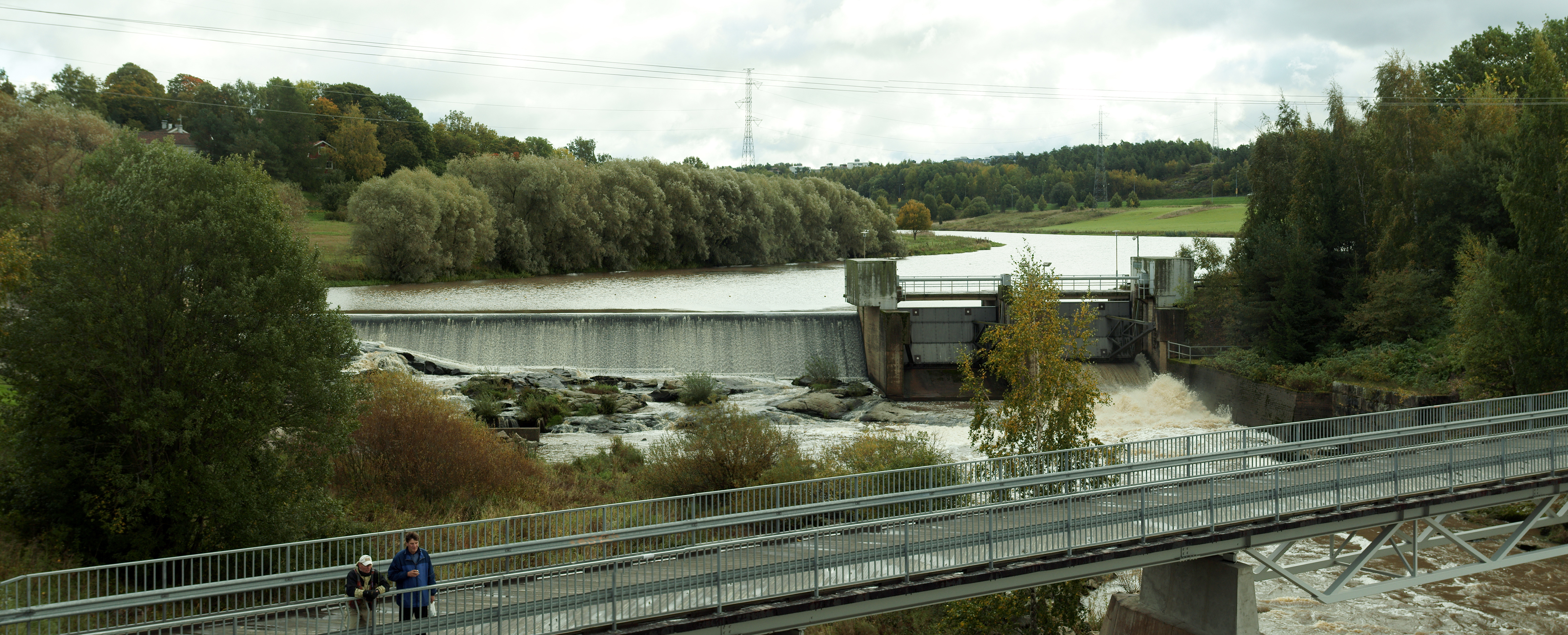 Halistenkoski rapid in Halinen, Turku.